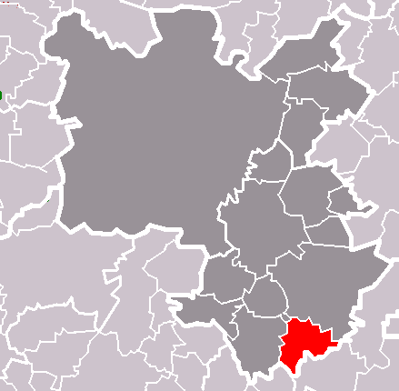 Location of Nezvěstice municipality within Plzeň-City District.